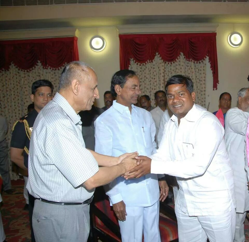 Jeevan Reddy Governor